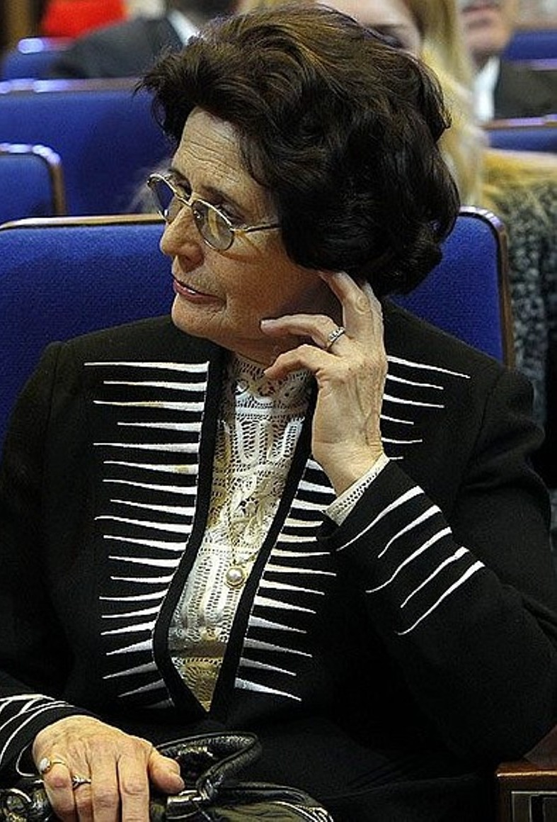 At gala concert honouring Cosmonautics Day. Member of the first squad of cosmonauts Alexei Leonov and Yury Gagarin’s widow Valentina Gagarina.